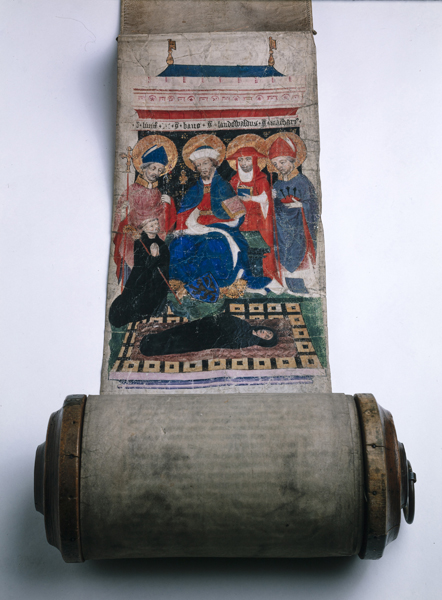 Sint-Baafskathedraal, Gent, Oost-Vlaanderen, Belgium. Cathedral collections. Manuscript in roll (Dodenrol van de Sint-Baafsabdij). 52 pieces of parchment sewed together. 1406. Detail. Inv nr 742. . photo: Paul M.R. Maeyaert. . © Paul M.R. Maeyaert; . Original colour transparency 4x5. . Cultural heritage; Cultural heritage|Monuments|Cathedral; Cultural heritage|Techniques|Manuscript; Europe|Belgium; Europe|Belgium|Oost-Vlaanderen; Europe|Belgium|Oost-Vlaanderen|Gent; Europe|Belgium|Oost-Vlaanderen|Gent|Sint-Baafskathedraal.